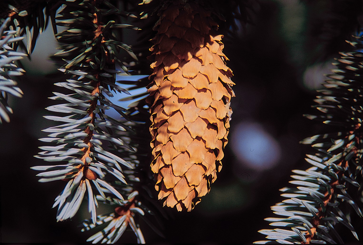 Blue Spruce, cone.